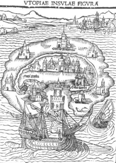 Title woodcut for Utopia written by Thomas More.